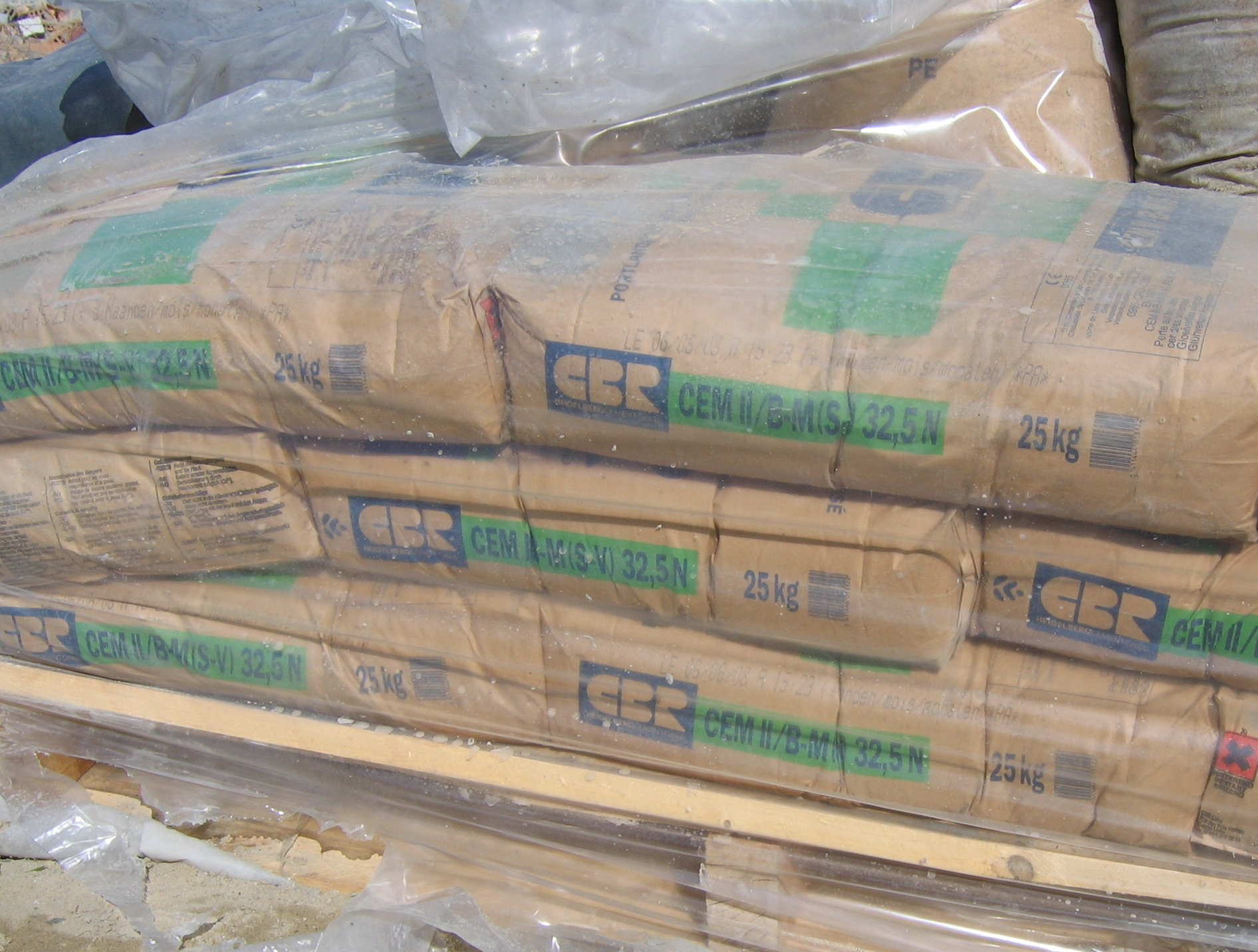 A pallet of Portland cement bags used for construction.